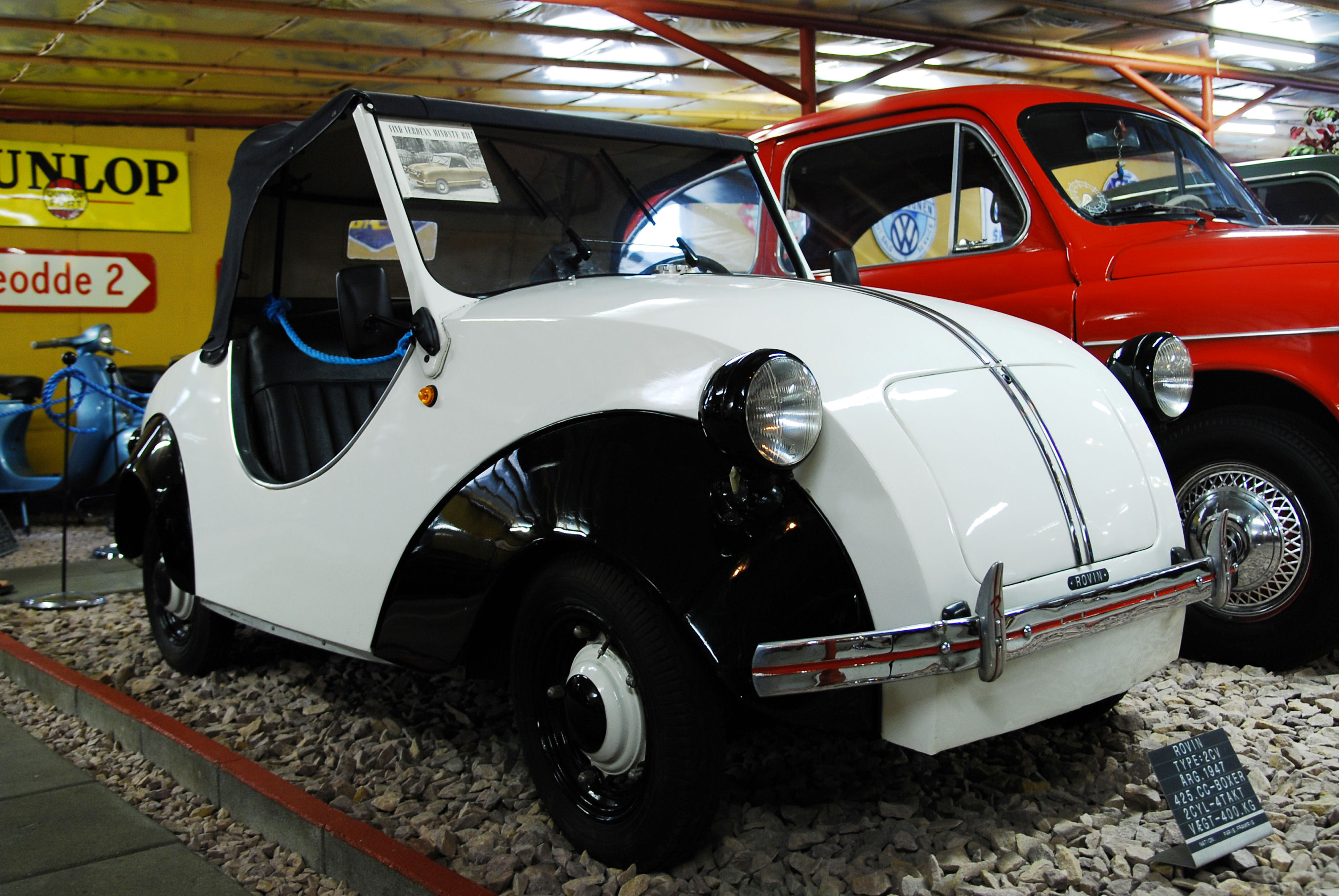 1947 Rovin 2CV at the Automobilmuseum in Bornholm in Aakirkeby